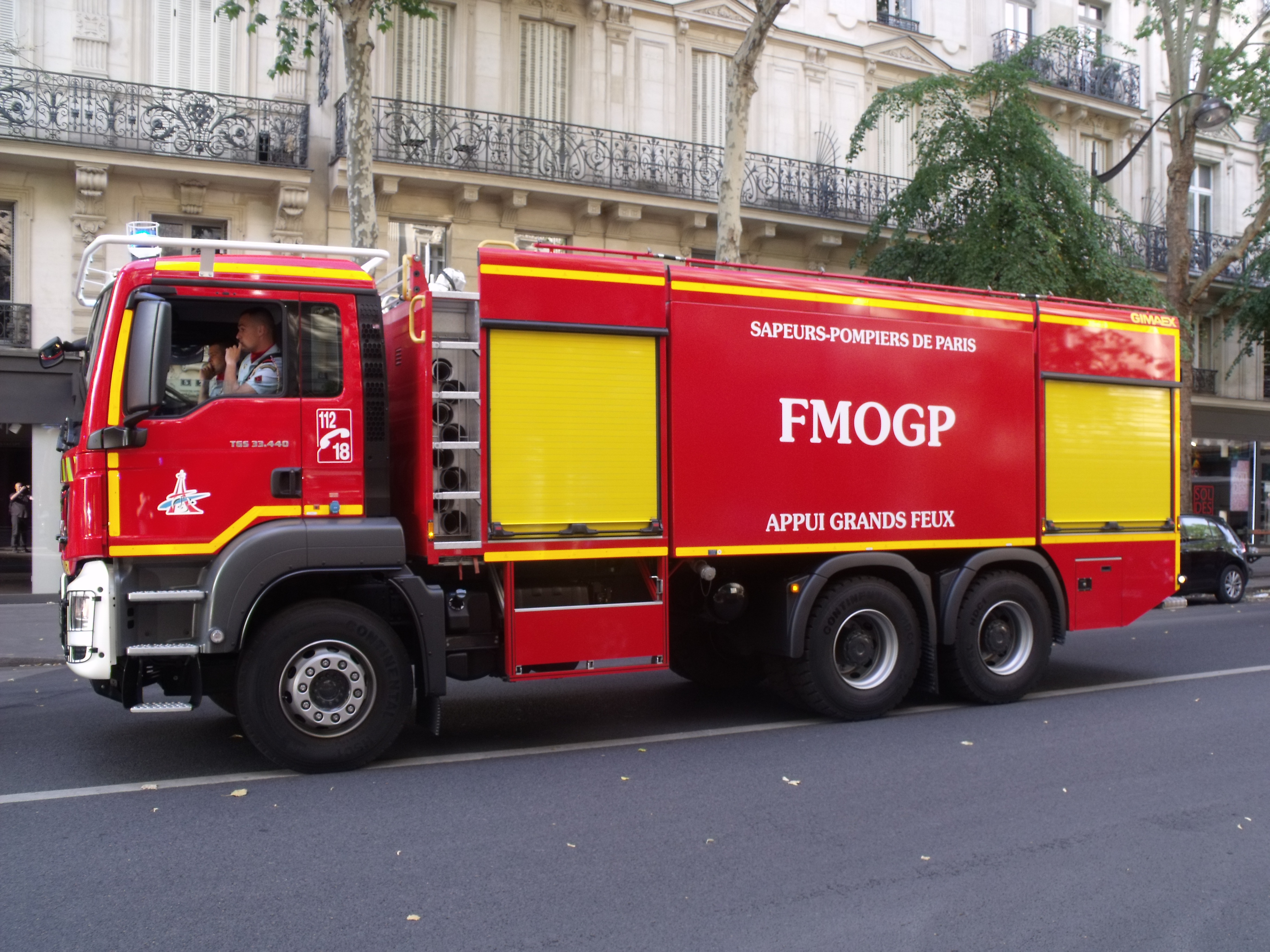 MAN brand vehicle, model TGS 33.440. It has a 26-tonne chassis. Three copies are in service in 2019 within Paris Fire Brigade.